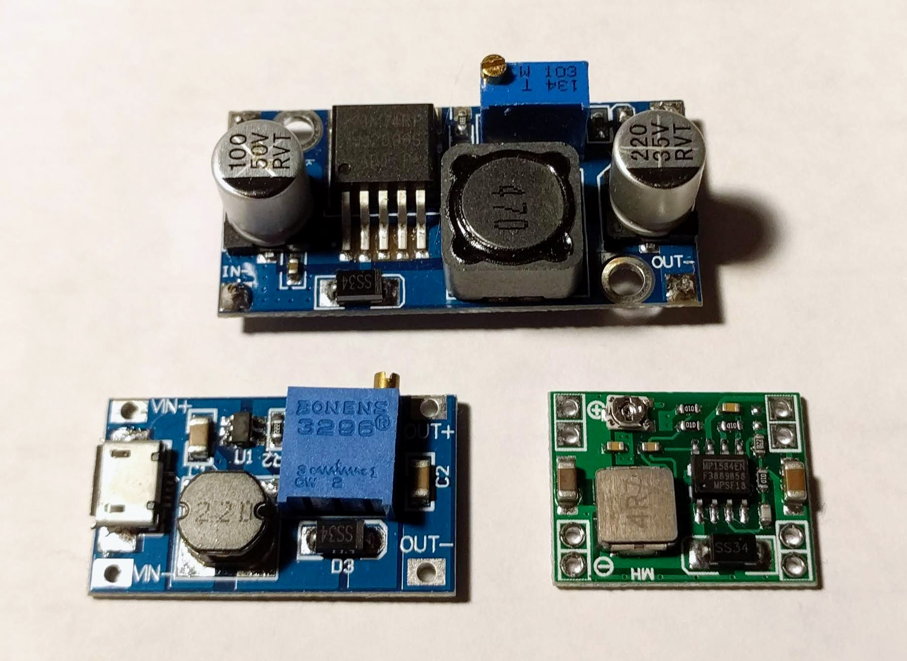 Three small commodity DC voltage converter modules. Clockwise from top; LM2596 based buck converter, MP1584 based buck converter, and SDB628 based boost converter.